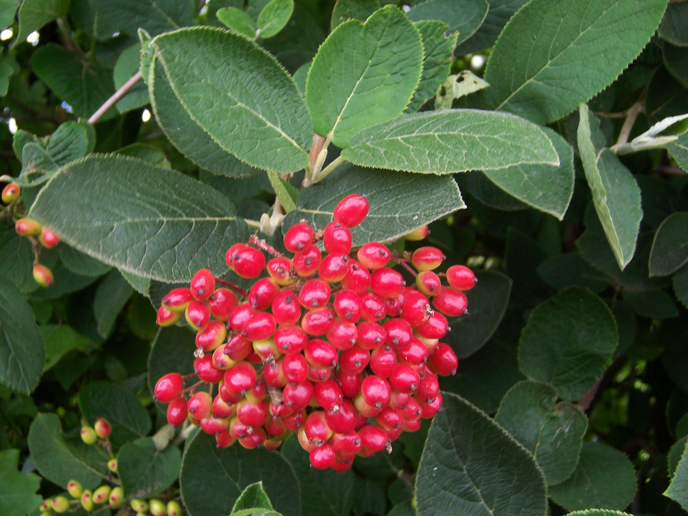 Fruit of Viburnum lantana